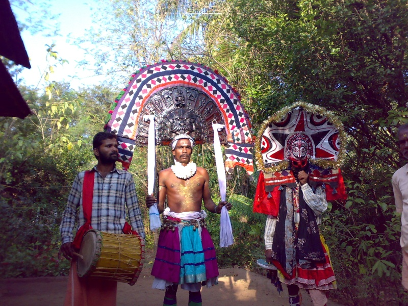 A valluvanadan art form found at Valluvanad, Talappilly, Vanneri and Palakkattusseri areas.